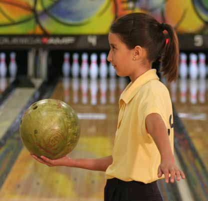 bowling